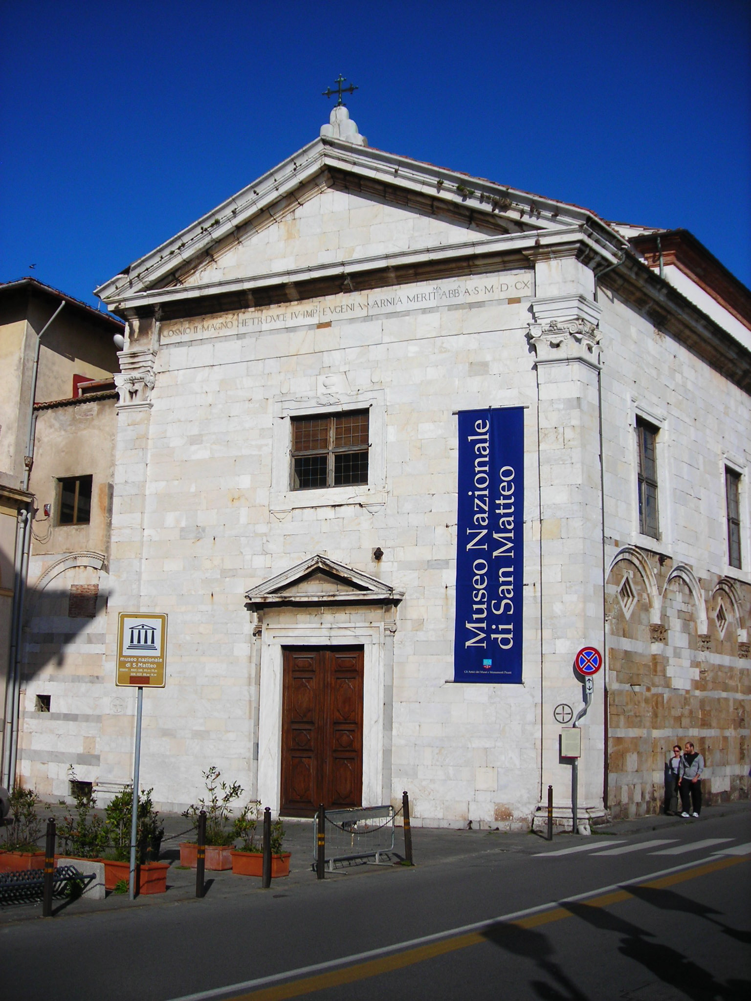 Museo Nazionale di San Mateo, Location: Pisa